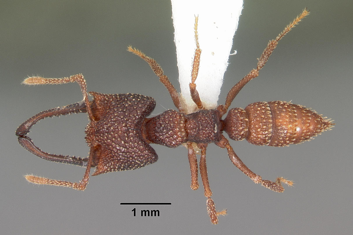 Dorsal view of ant Mystrium silvestrii specimen casent0102168.